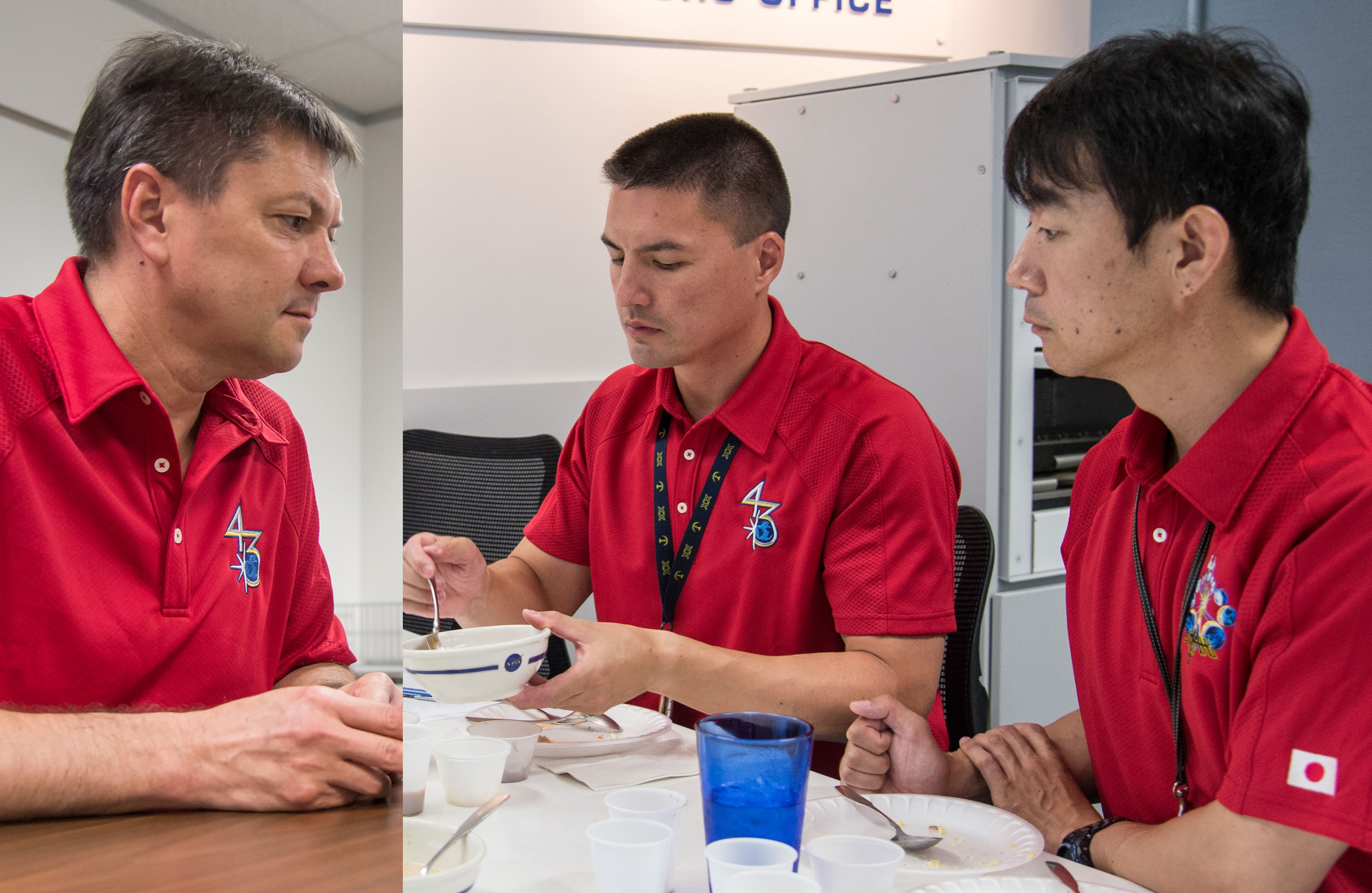 Russian cosmonaut Oleg Kononenko (left), Expedition 44/45 flight engineer, participates in a photography training session at NASA's Johnson Space Center.NASA astronaut Kjell Lindgren (center) and Japan Aerospace Exploration Agency (JAXA) astronaut Kimiya Yui, both Expedition 44/45 flight engineers, participate in a food tasting session in the Habitability and Environmental Factors Office at NASA's Johnson Space Center.